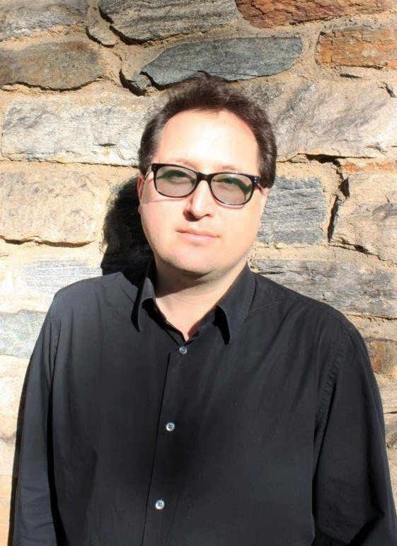 Simeon Bankoff outside of the Neighborhood Preservation Center